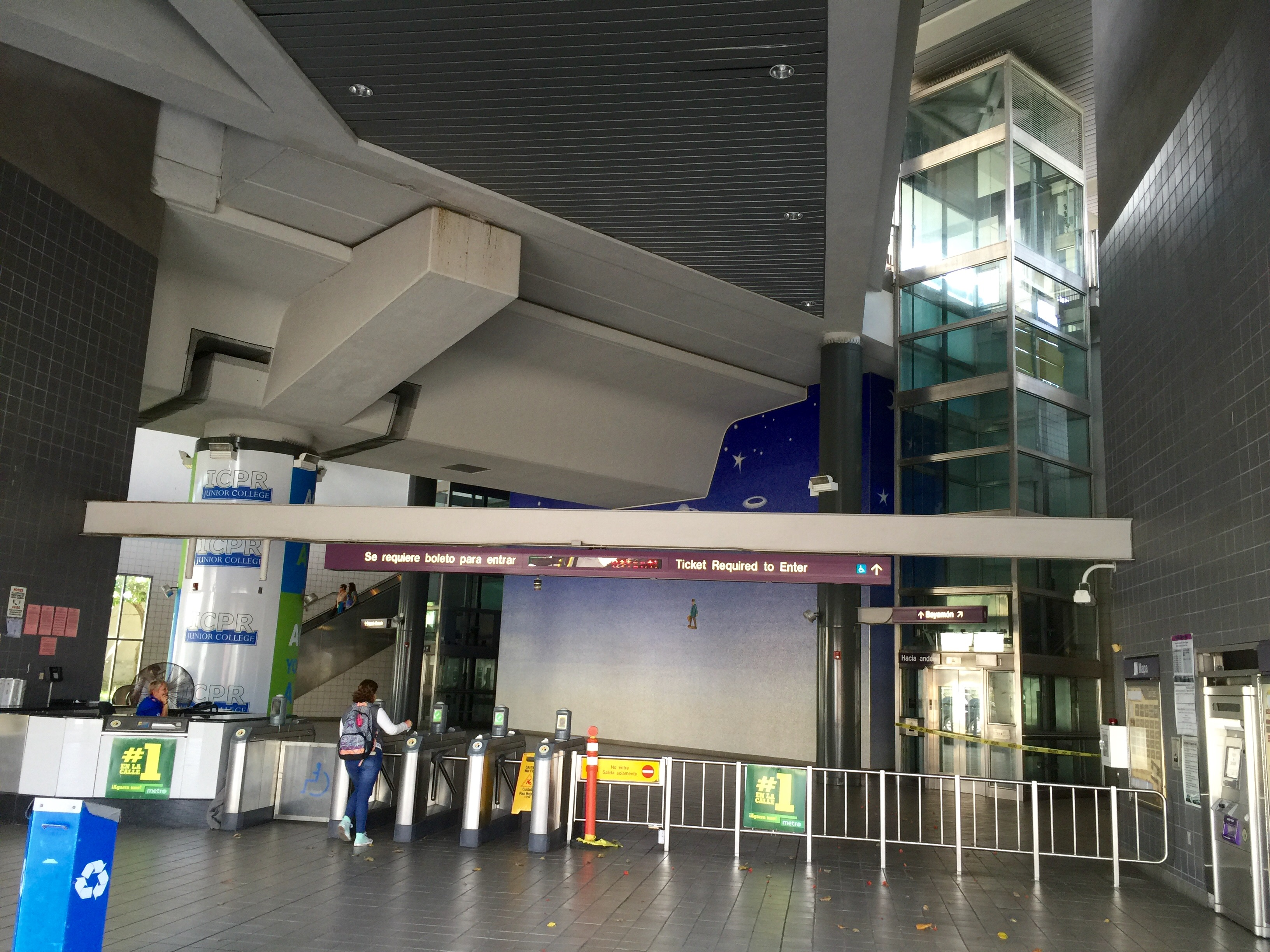 Tren Urbano Domenech vestíbule